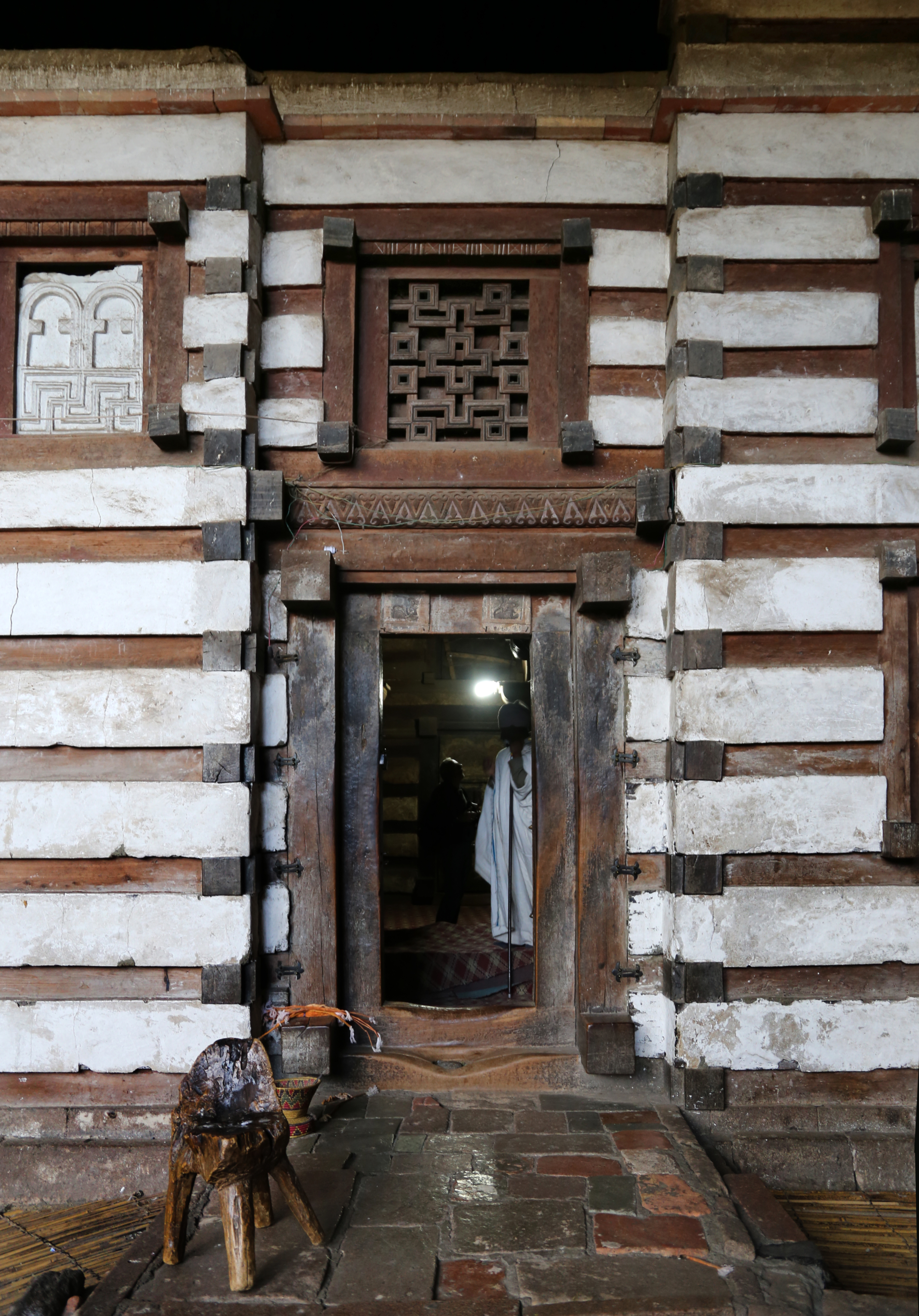 Yemrehanna Krestos